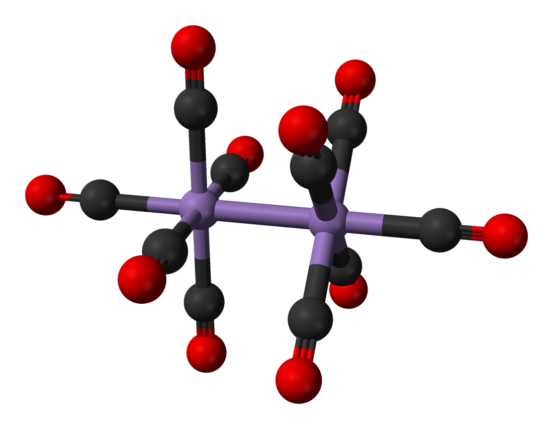 Ball-and-stick model of the dimanganese decacarbonyl molecule, Mn2(CO)10.